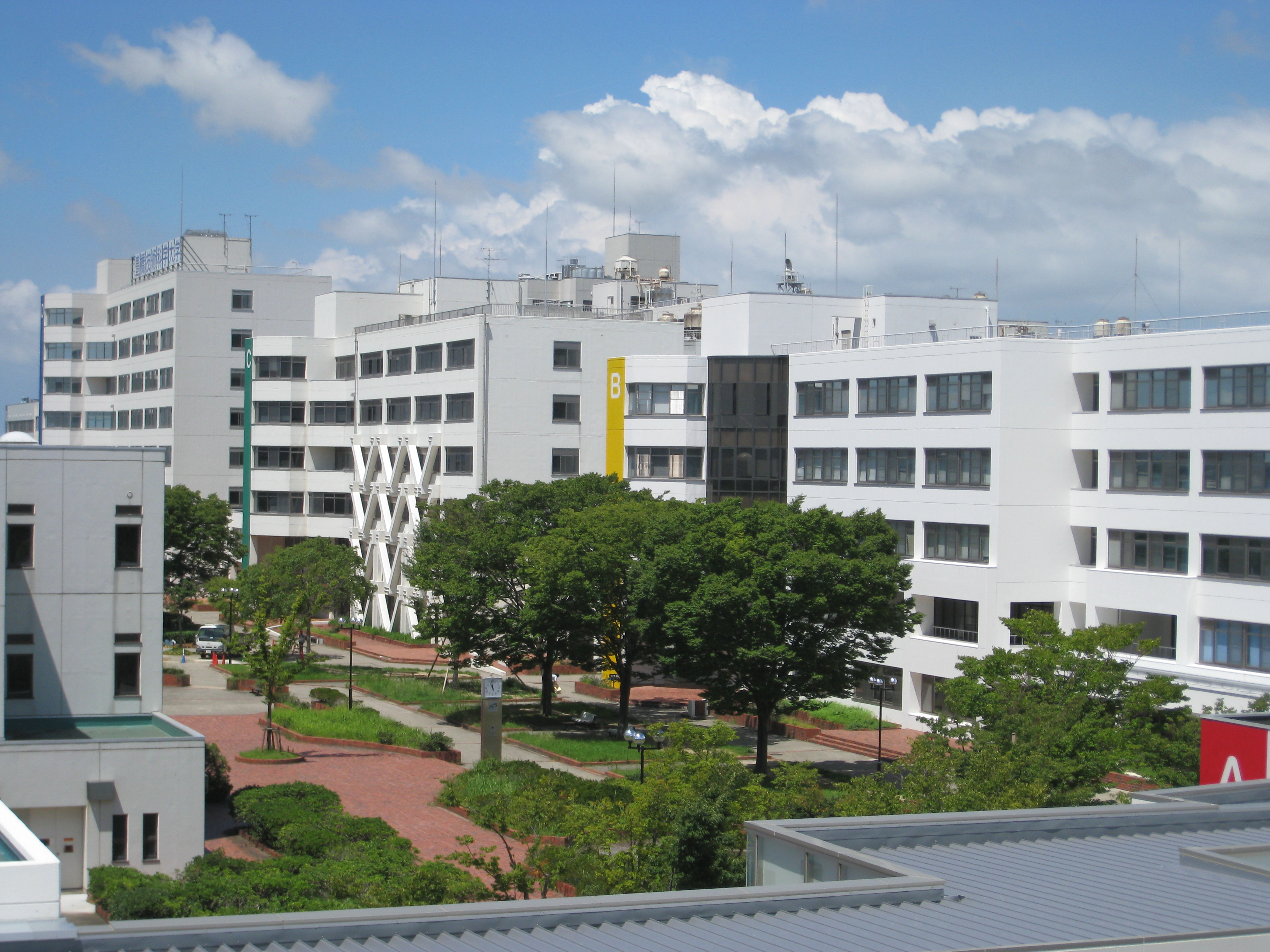 Taken in the summer 2010